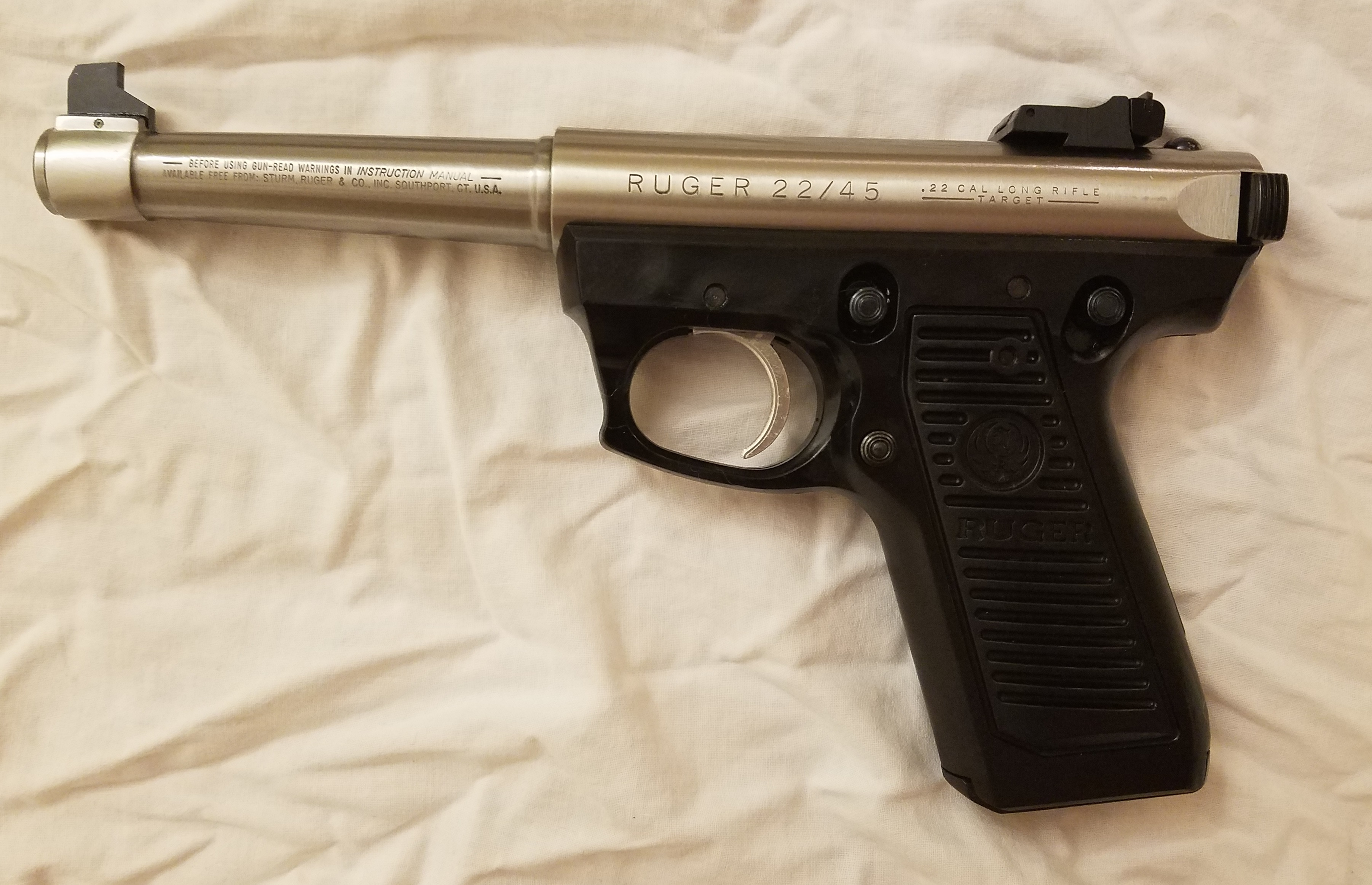 Ruger 22/45, Mark II, Target, .22 LR